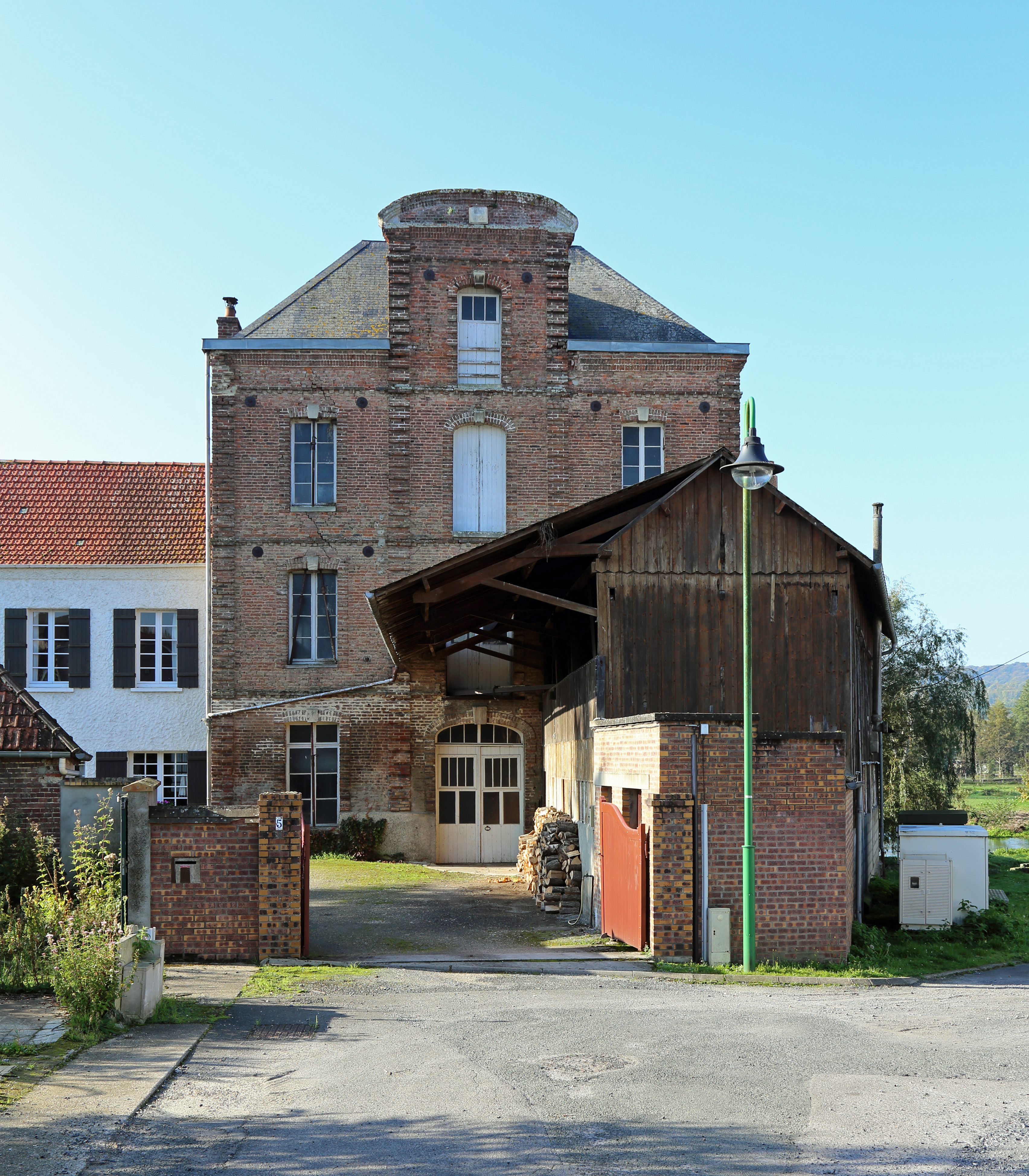 Beauchamps (Somme department, France): the old watermill, built 1866